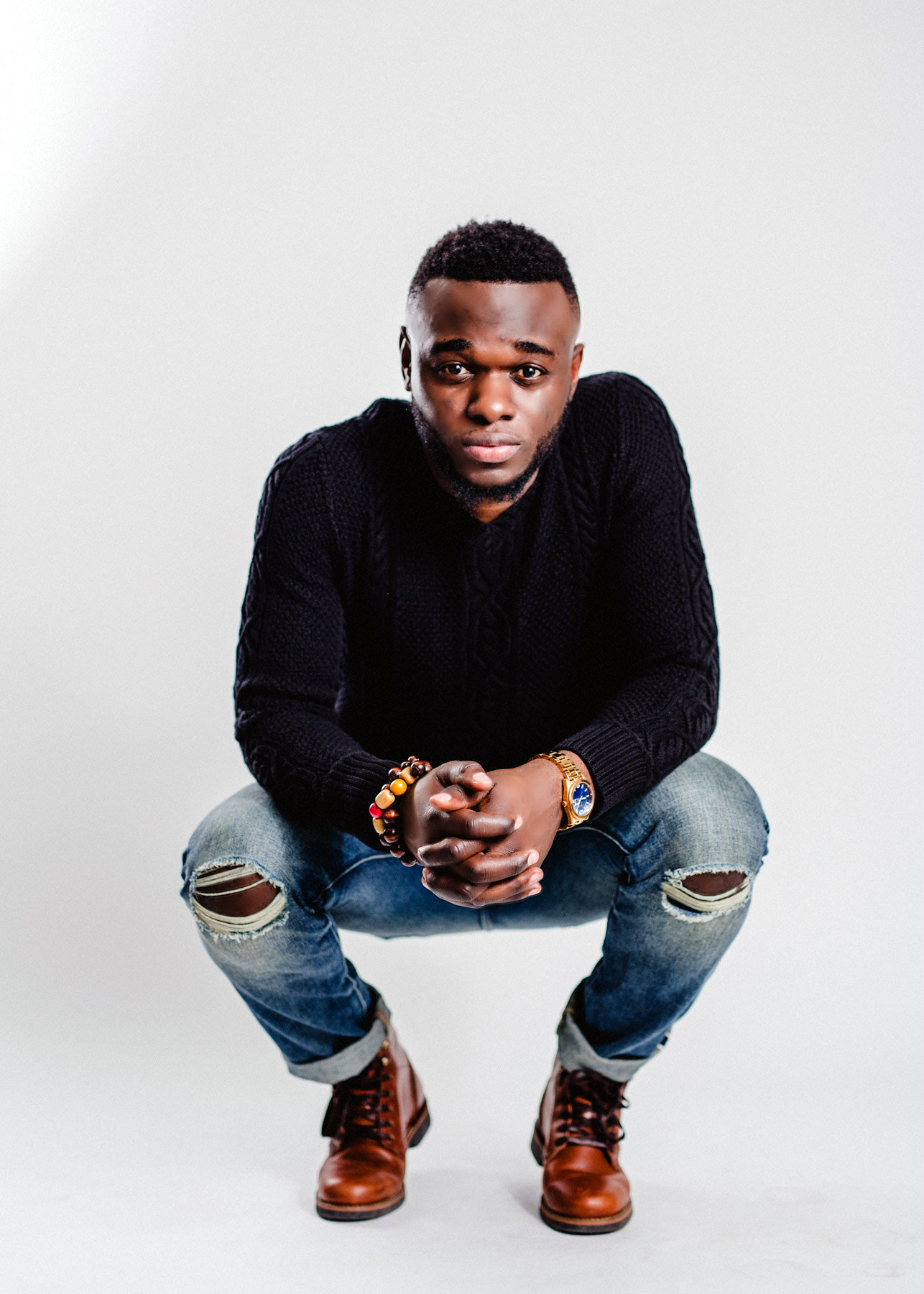 Icha Kavons at a photo shoot